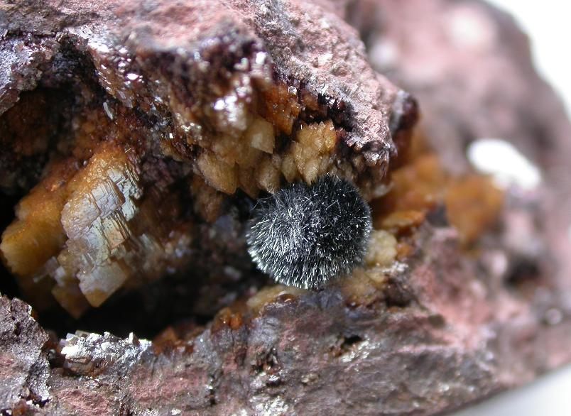 Stibnite, Siderite Locality: Hilfe Gottes Mine, Wiemannsbucht, Bad Grund, Clausthal-Zellerfeld, Harz Mts, Lower Saxony, Germany A 7mm stibnite sphere on siderite. Rare in the Harz Mts. Specimen and photo Leon Hupperichs.